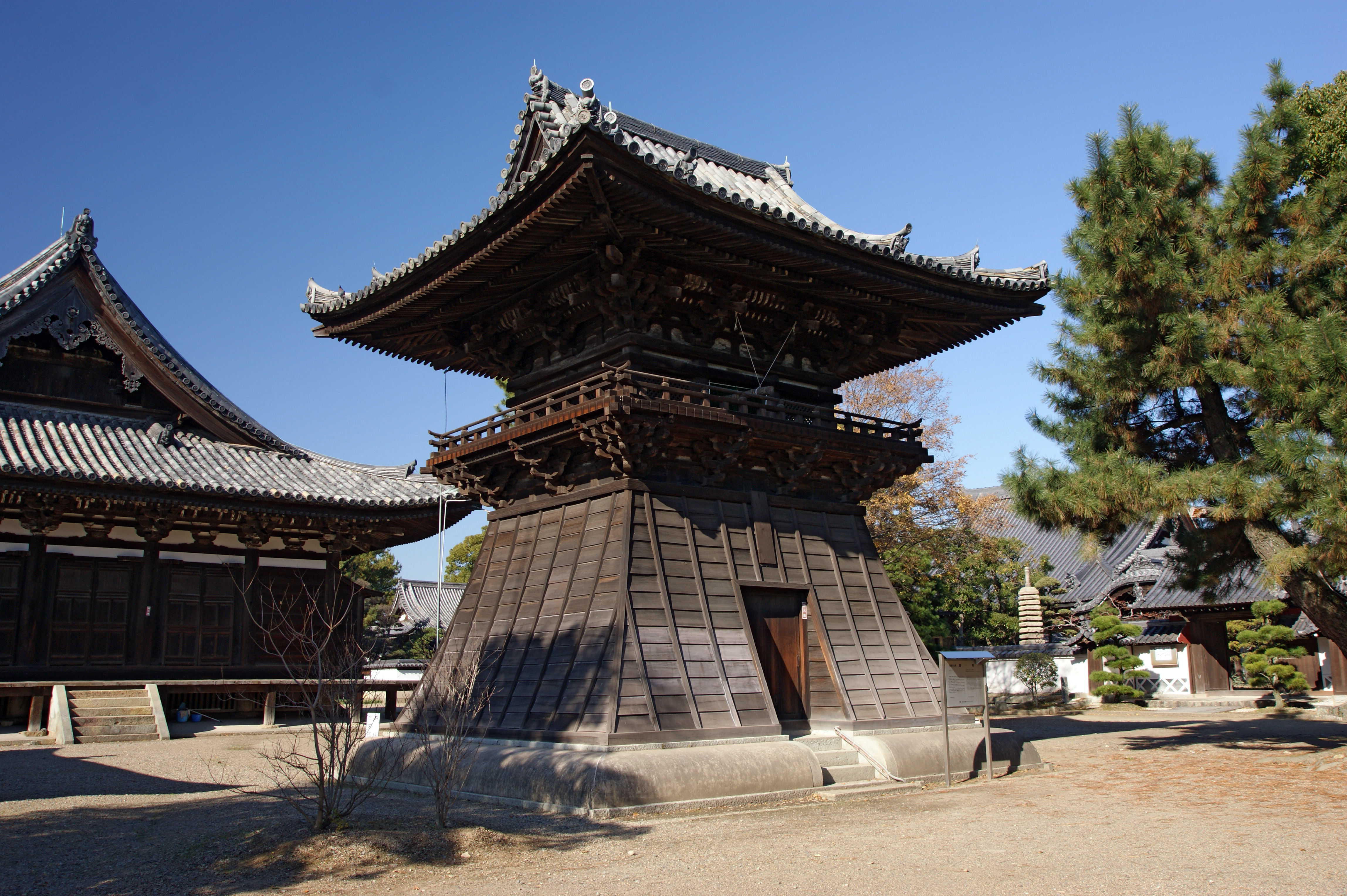 Kakurinji, Kakogawa, Hyogo prefecture, Japan